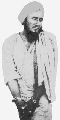 Sher Ali Afridi, the criminal who killed Lord Mayo at Port Blair, Andaman and Nicobar Islands.